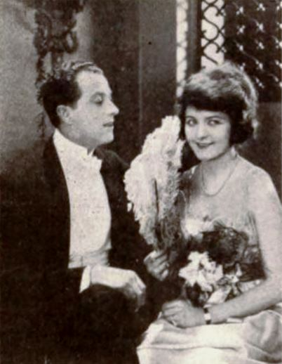 Still from the American crime drama film The Wonderful Chance (1920) with Eugene O'Brien and Martha Mansfield, on page 86 of the October 23, 1920 Exhibitors Herald.